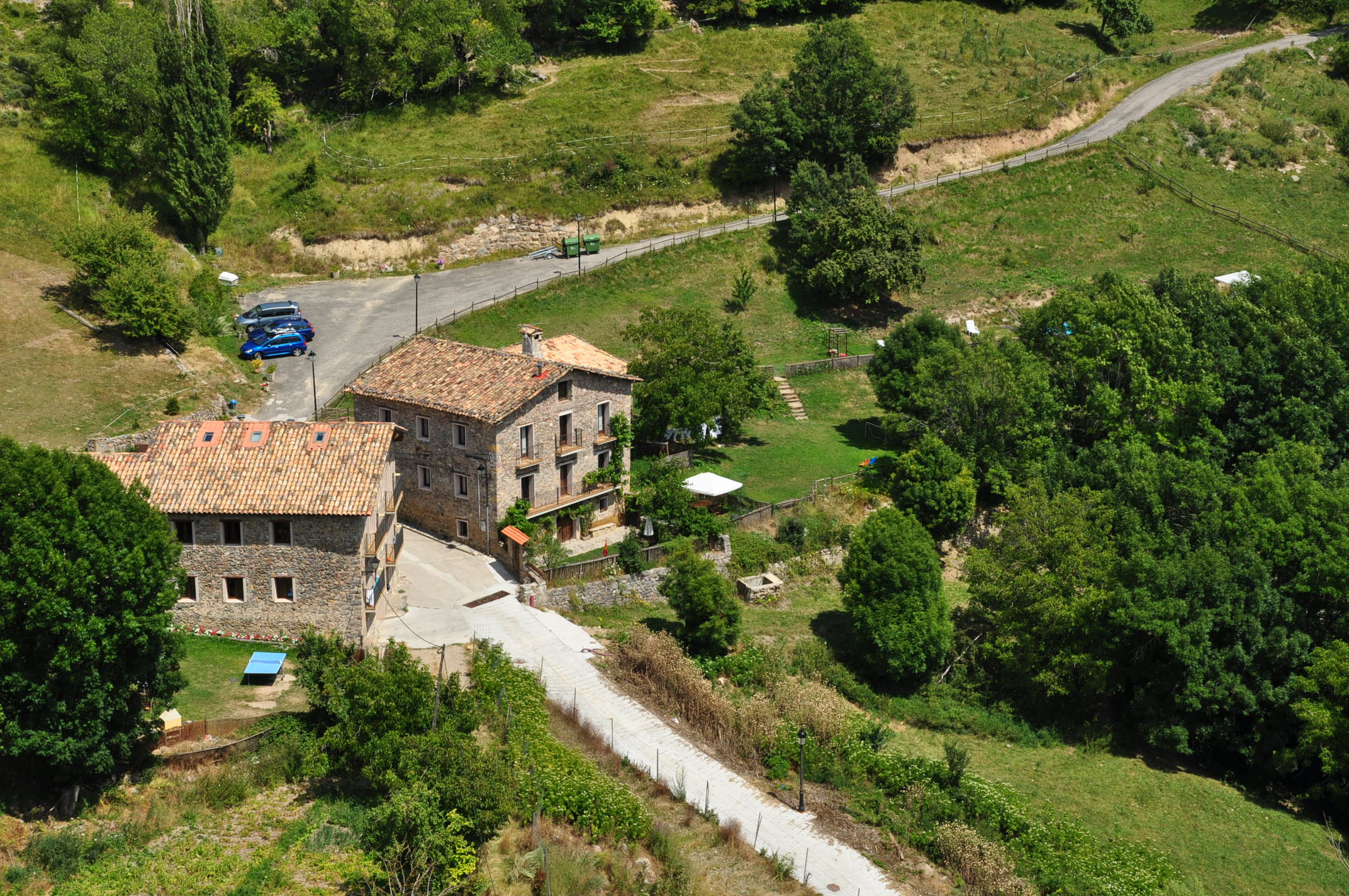 The "Casa del Batlle" is the main building in the hamlet of Sarroqueta in the Spanish Pyrenees (Municipality El Pont de Suert, Alta Ribagorça district, Catalonia, Spain).